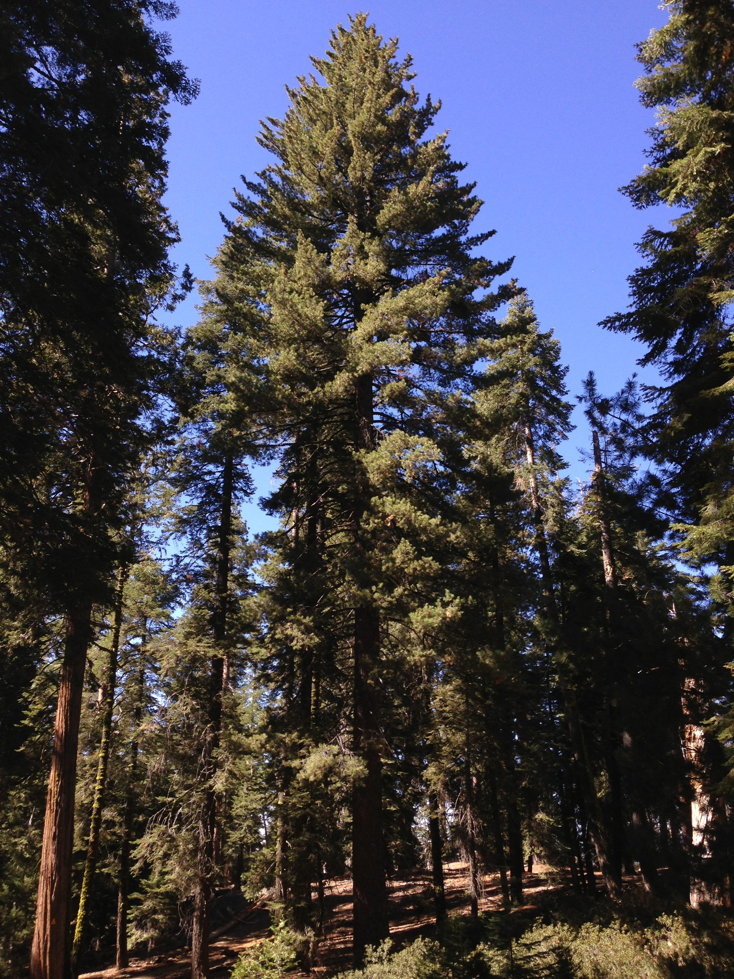 Large Sugar Pine Pinus lambertiana along the Sherman Tree Trail in Sequoia National Park